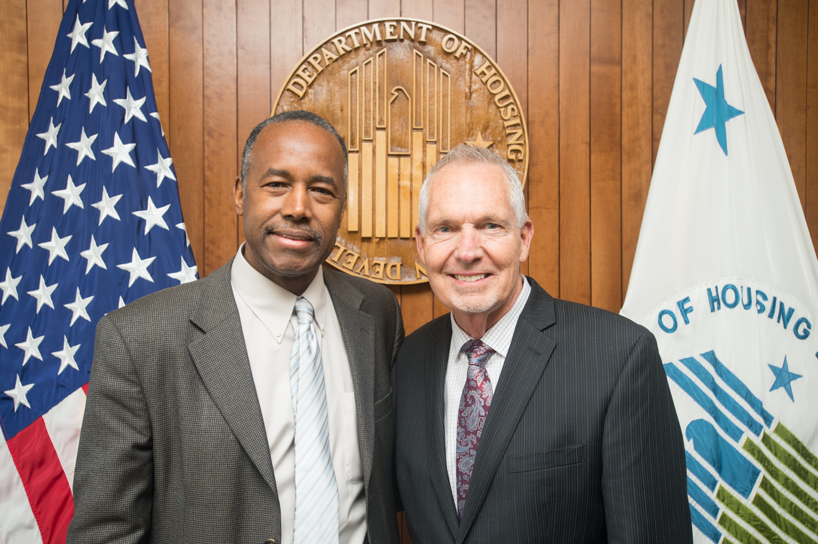 United States Secretary of Housing and Urban Development, Ben Carson, on the first day of the job.